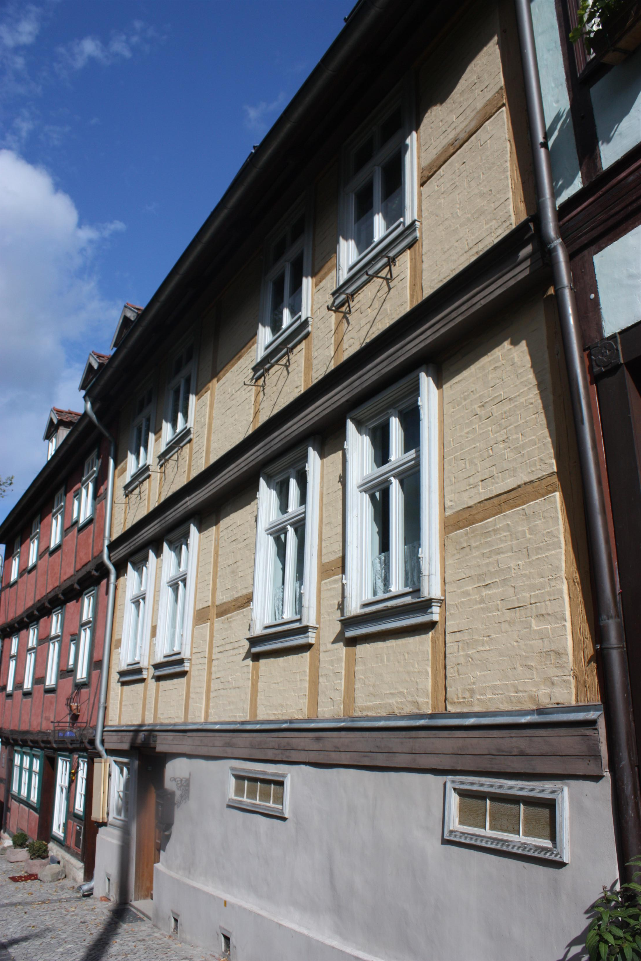 This is a photograph of an architectural monument.It is on the list of cultural monuments of Quedlinburg Quedlinburg Schloßberg